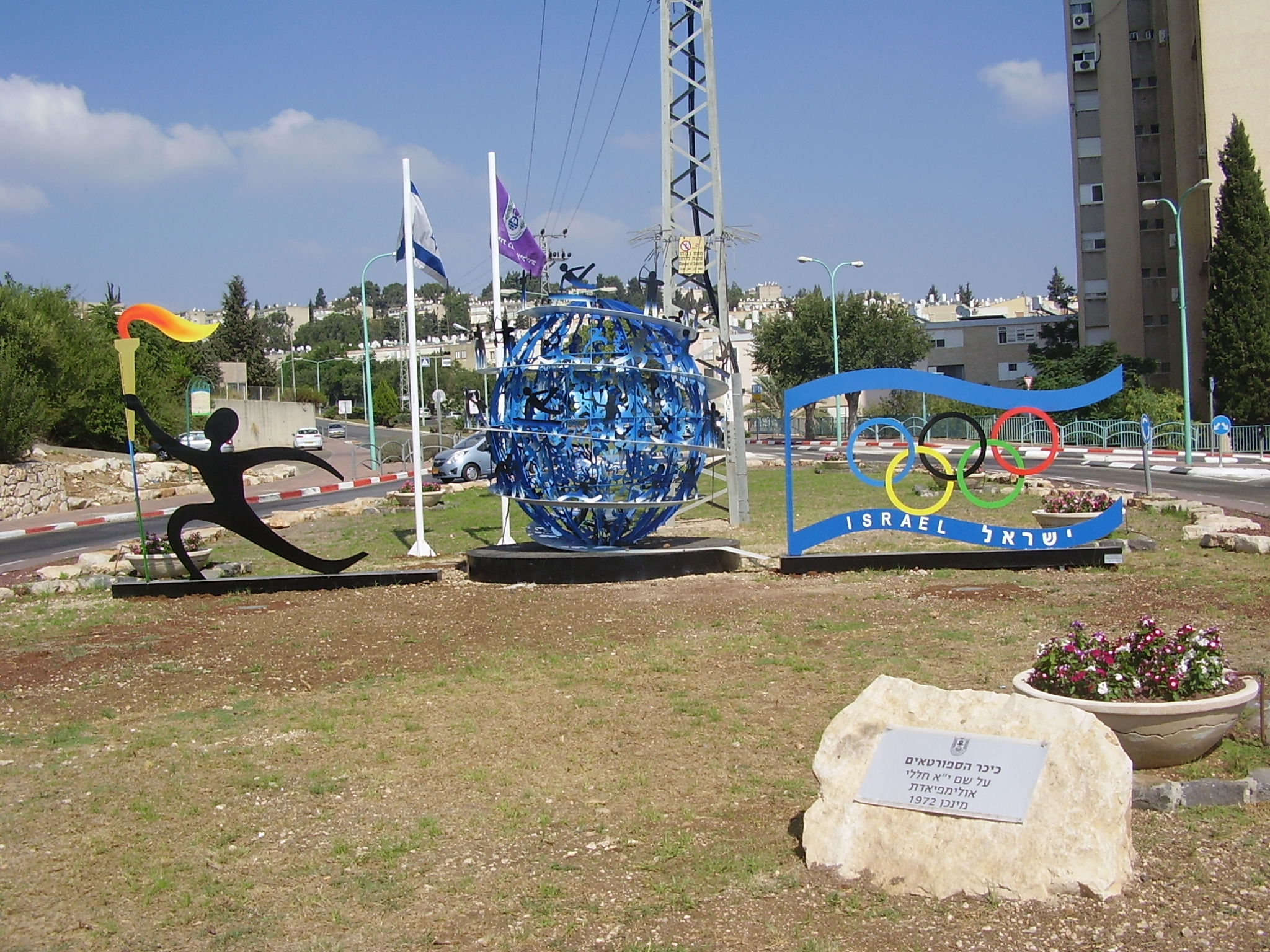 Memorial to munich massacre in Nazareth Illit, Israel